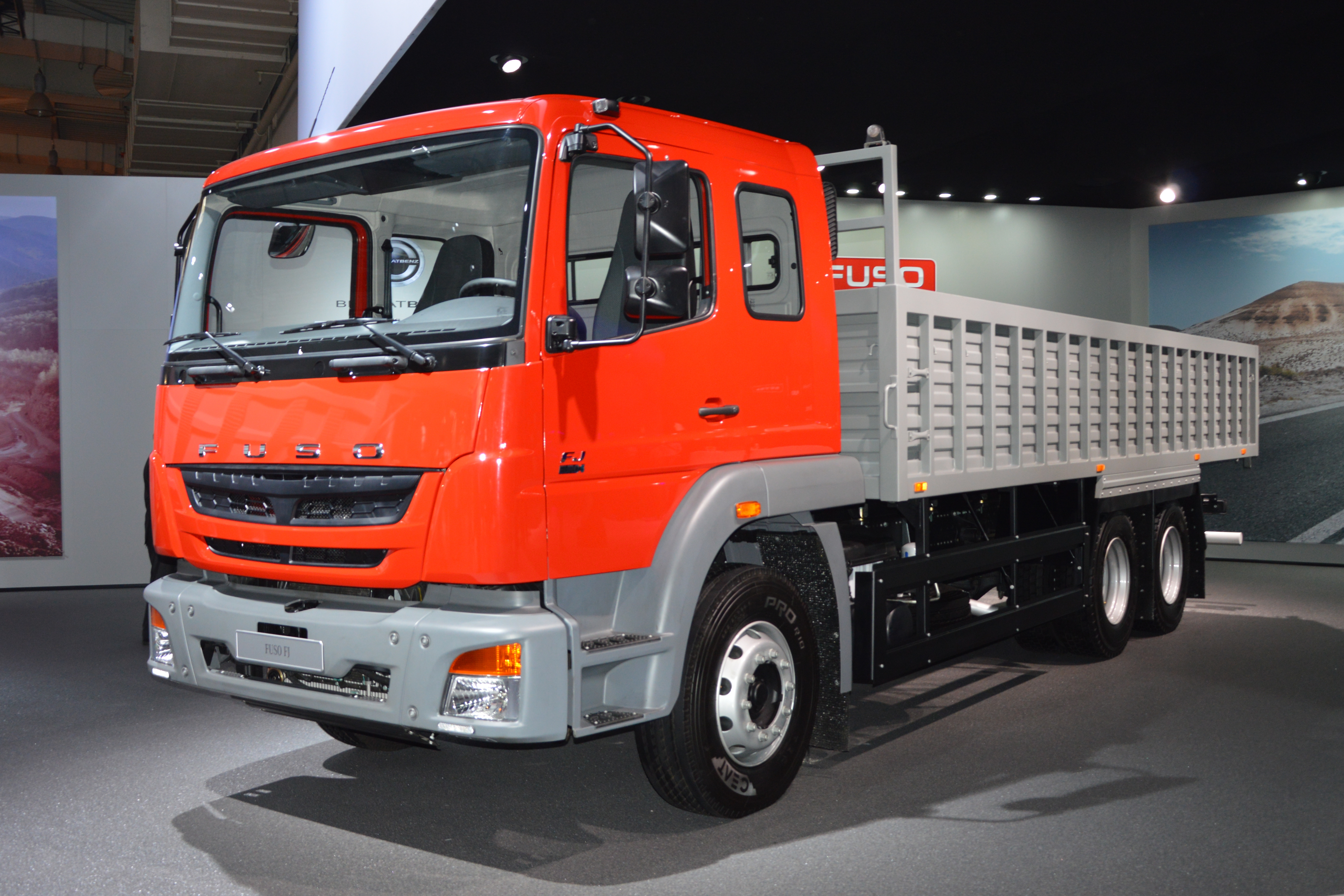 Fuso FJ 2528 Rigid truck 6 x 2. Max. GVW: 25 to. Engine: 4 stroke turbocharged diesel-engine Power: 170 kW Made in India. Sold in East Africa and South-East Asia. Photo taken at exhibition IAA 2014 in Hanover, Germany